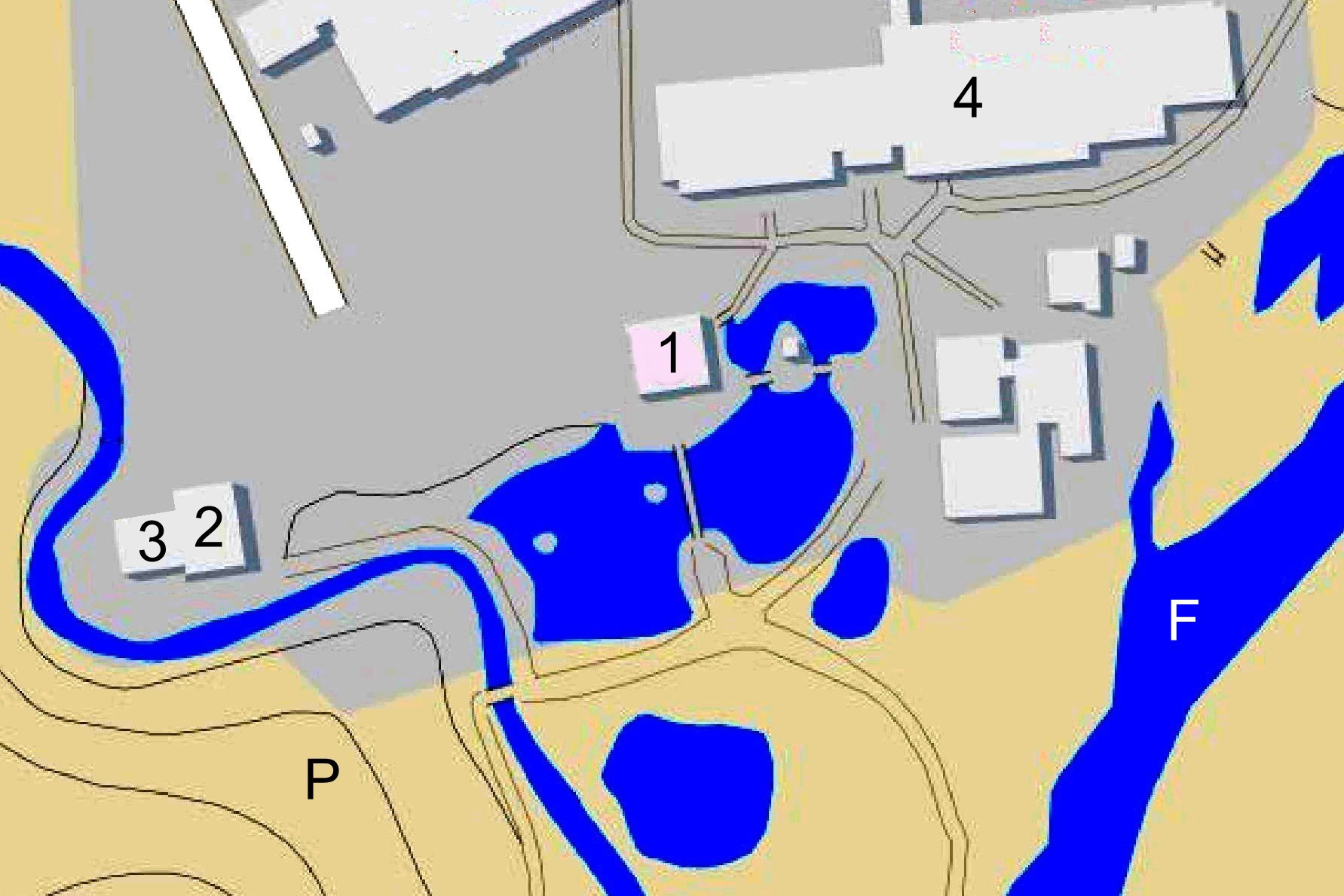 Layout of Eihô-ji, Gifu Pref.